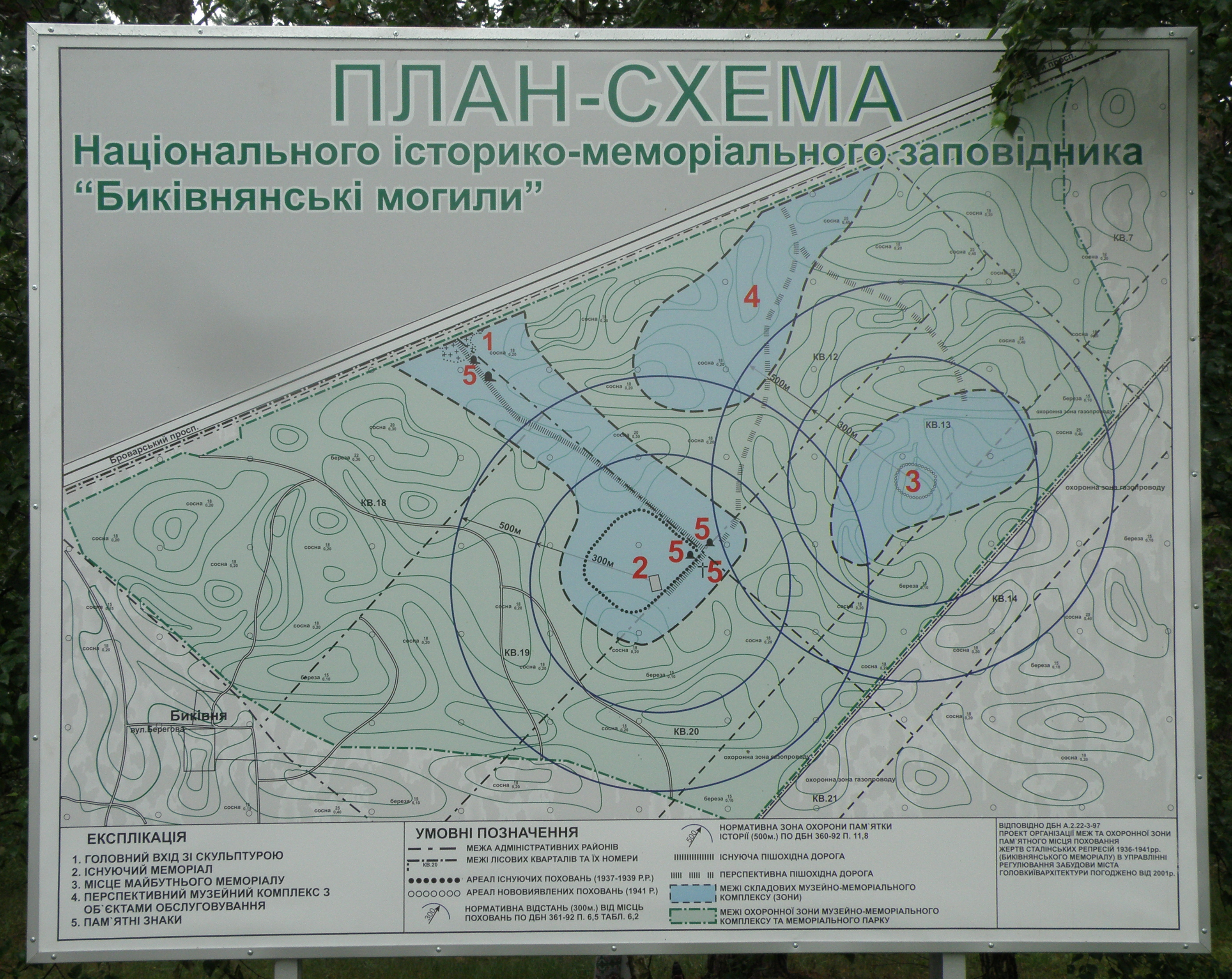 Maps of Bykivnia.